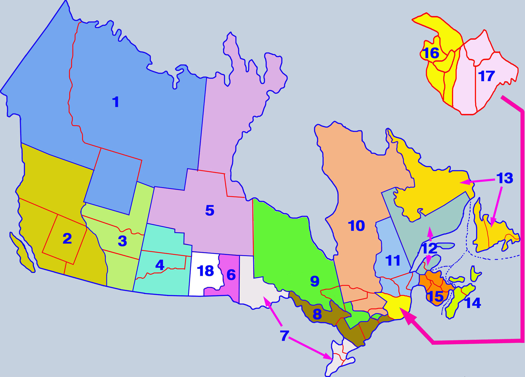 Map of Roman Catholic dioceses and provinces in Canada